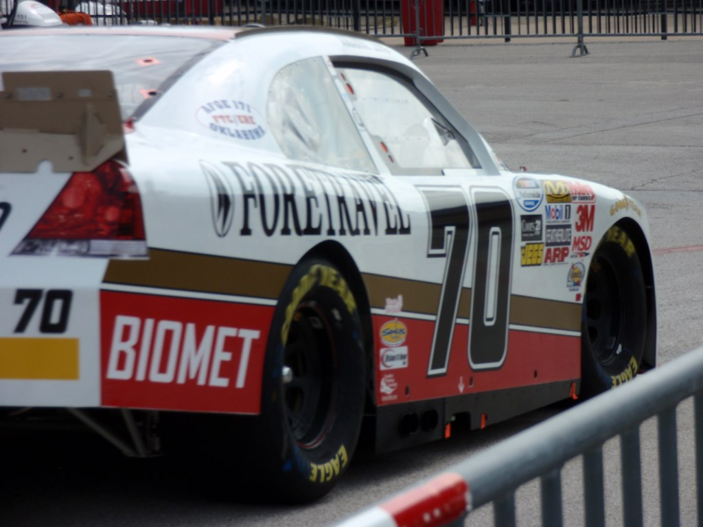 Johanna Long drives the No. 70 Foretravel Motorcoach Chevrolet on pit road during practice for the NASCAR Nationwide Series O'Reilly Auto Parts 300 at Texas Motor Speedway, April 12, 2012.